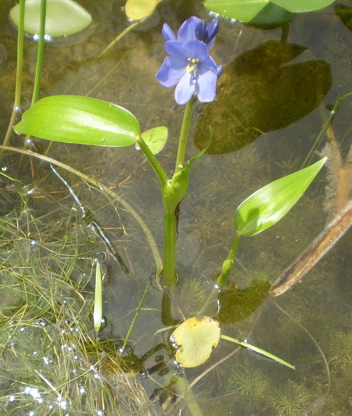 Monochoria korsakowii(Mizu-Aoi)